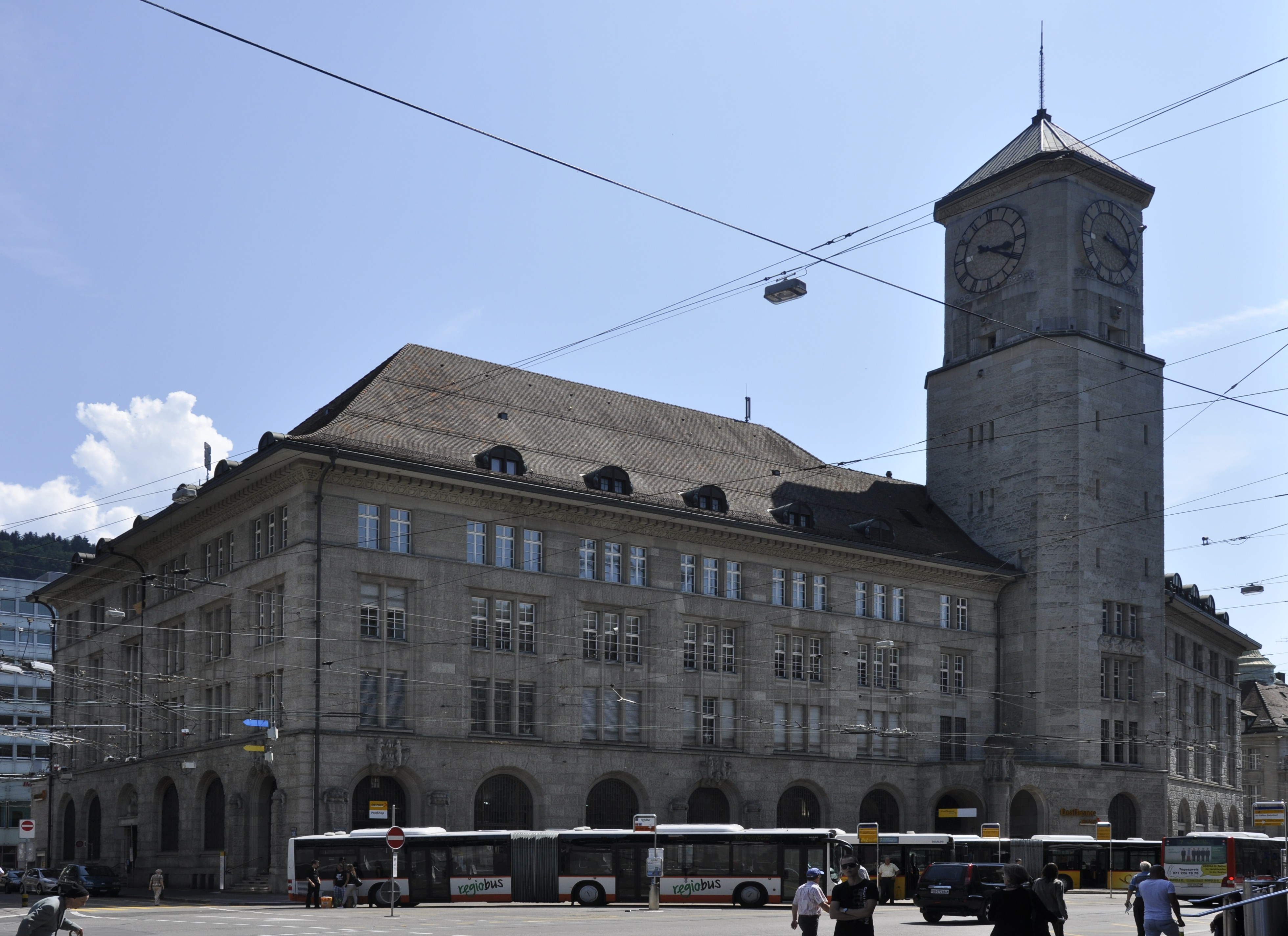 St. Gallen main post office